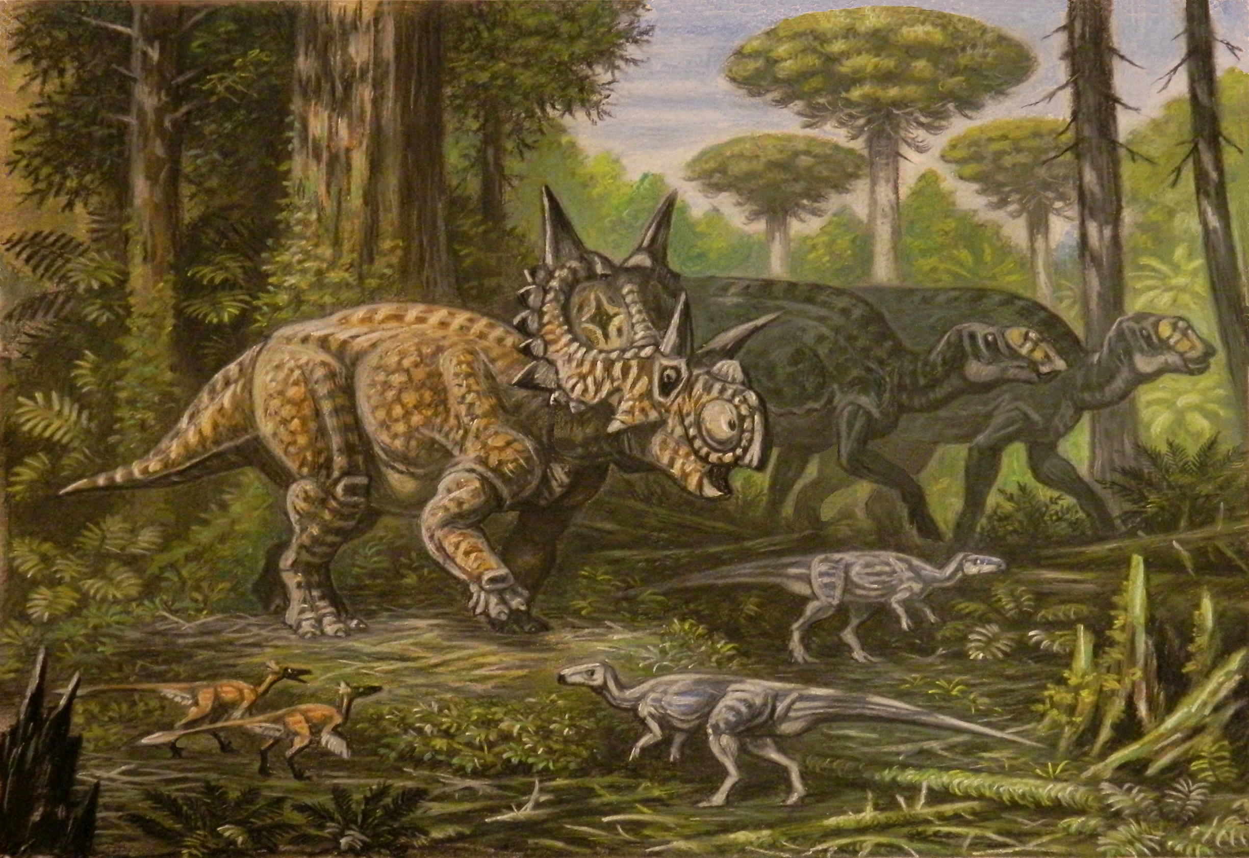 Xenoceratops, Gryposaurus, Saurornitholestes, and Thescelosaurus, in their environment.